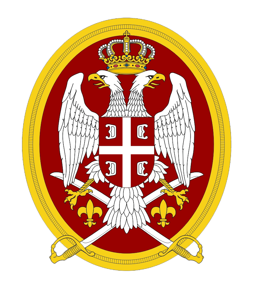 Serbian Land Forces